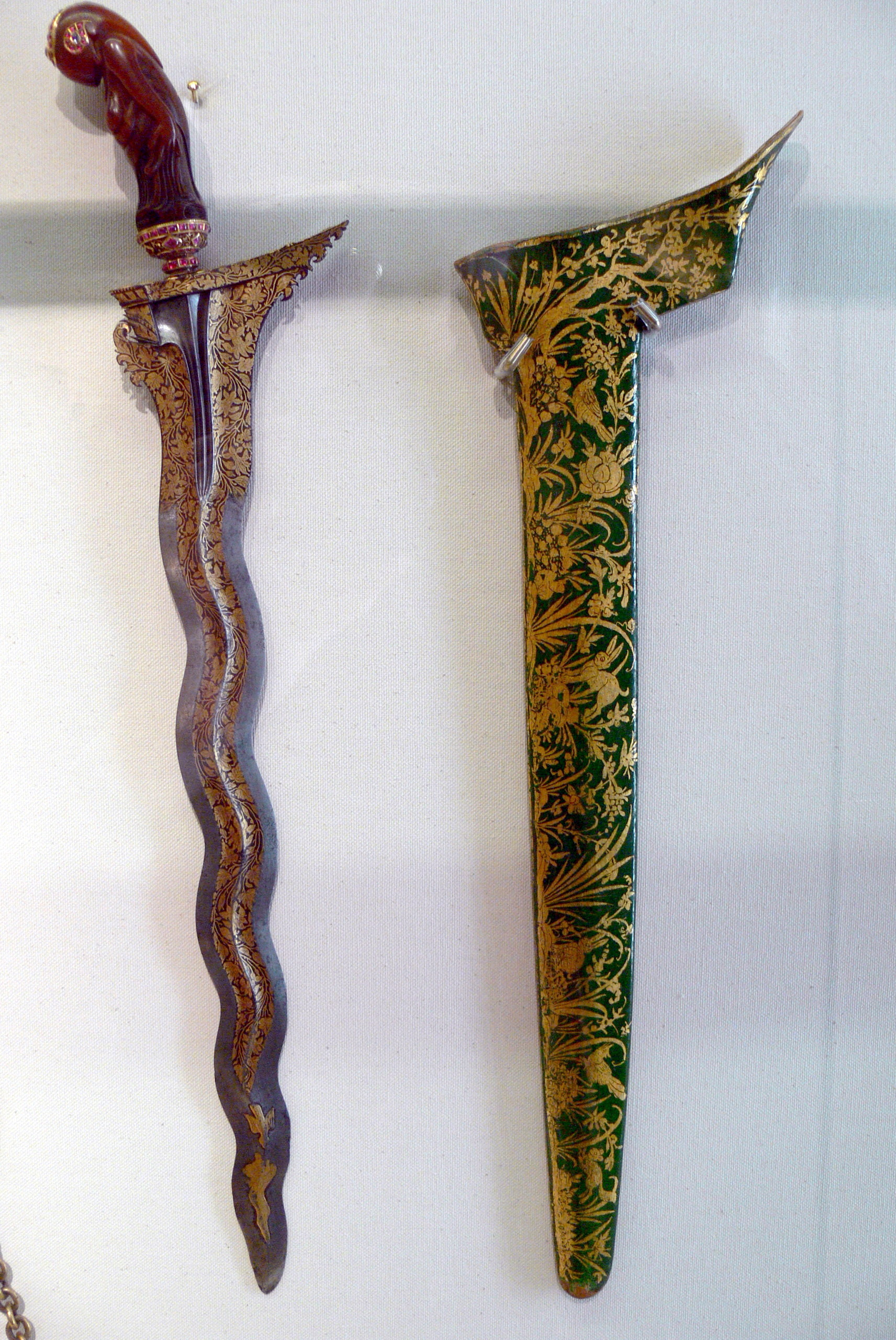 Vienna, Treasury of the German Order. Kris ( 16th century ) from Malaysia ( Inv.-Nr. W-009 )